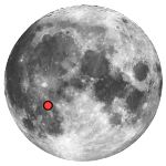 Description: Location of the Fra Mauro crater on the Moon. The marker also shows the proximity of the Bonpland and Parry craters. Source: This is a modified version of a photo obtained from the NASA Planetary Photojournal. It was modified by RJHall. Width: 150 pixels Height: 150 pixels